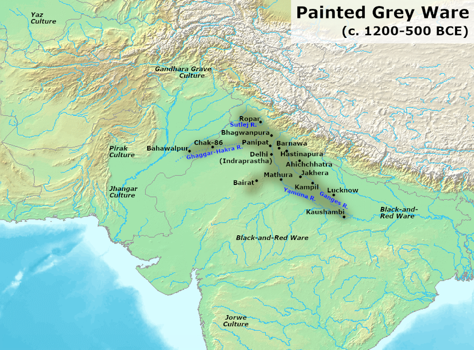 Sources: Kenoyer, J. M. (1995), “Interaction Systems, Specialised Crafts and Culture Change: The Indus Valley Tradition and the Indo-Gangetic Tradition in South Asia”, in G. Erdosy, The Indo-Aryans of Ancient South Asia: Language, Material Culture, and Ethnicity, Berlin: Walter de Gruyter, ISBN 9783110144475 Singh, U. (2009), A History of Ancient and Medieval India: From the Stone Age to the 12th Century, Delhi: Longman, ISBN 978-81-317-1677-9 Witzel, M. (2010), Das alte Indien, München: Beck, ISBN 9783406597176 Background from Made with GIMP